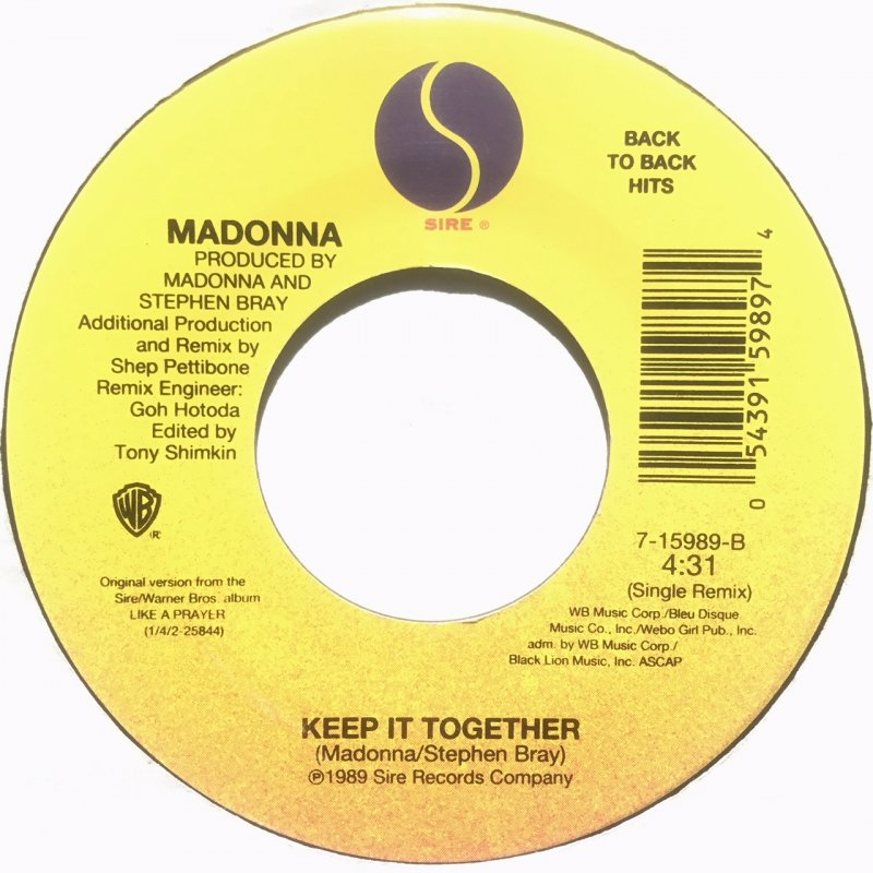 B-side label of U.S. vinyl release of "Keep It Together" by Madonna